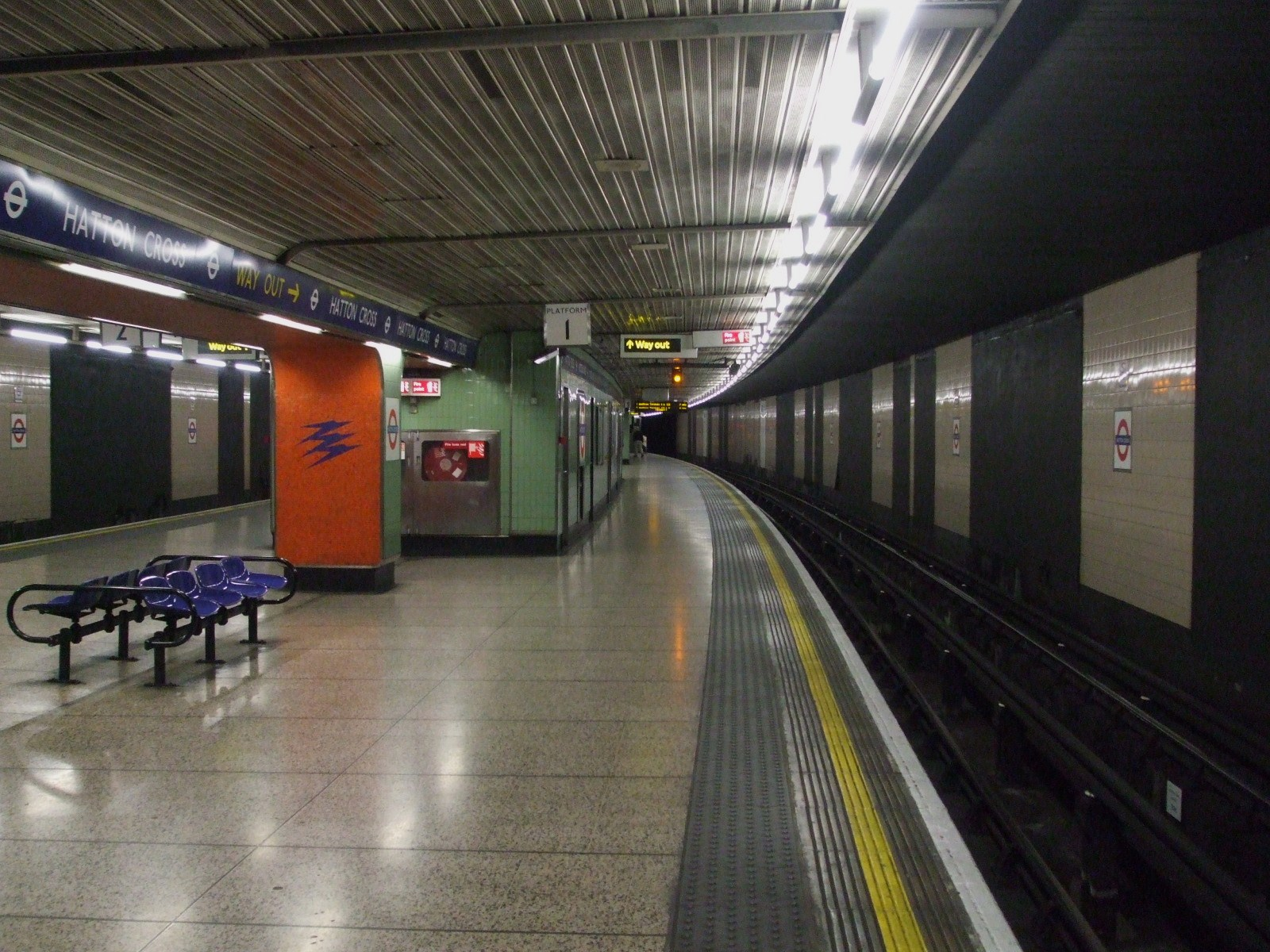 Hatton Cross tube station westbound platform looking east